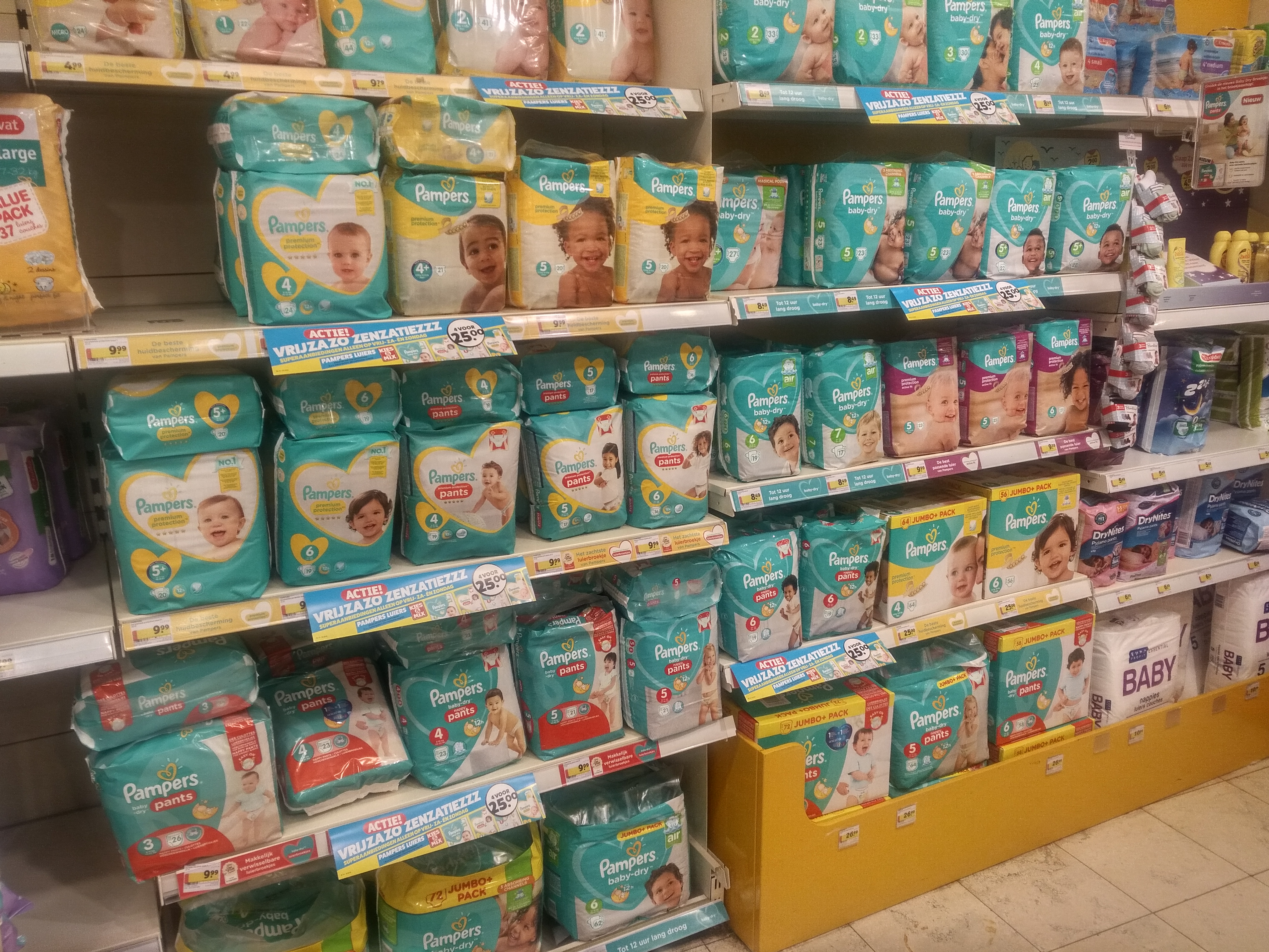 Pampers diapers being sold as part of a promotion in a Kruidvat shop in the Groninger city of Winschoten, Oldambt.